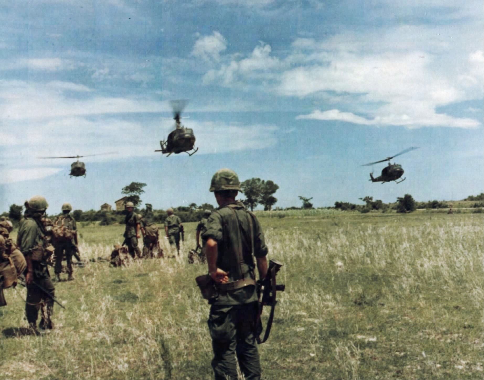 OPERATION BOLLING UH-1D helicopters set down in the landing zone near the 17th Cavalry position.